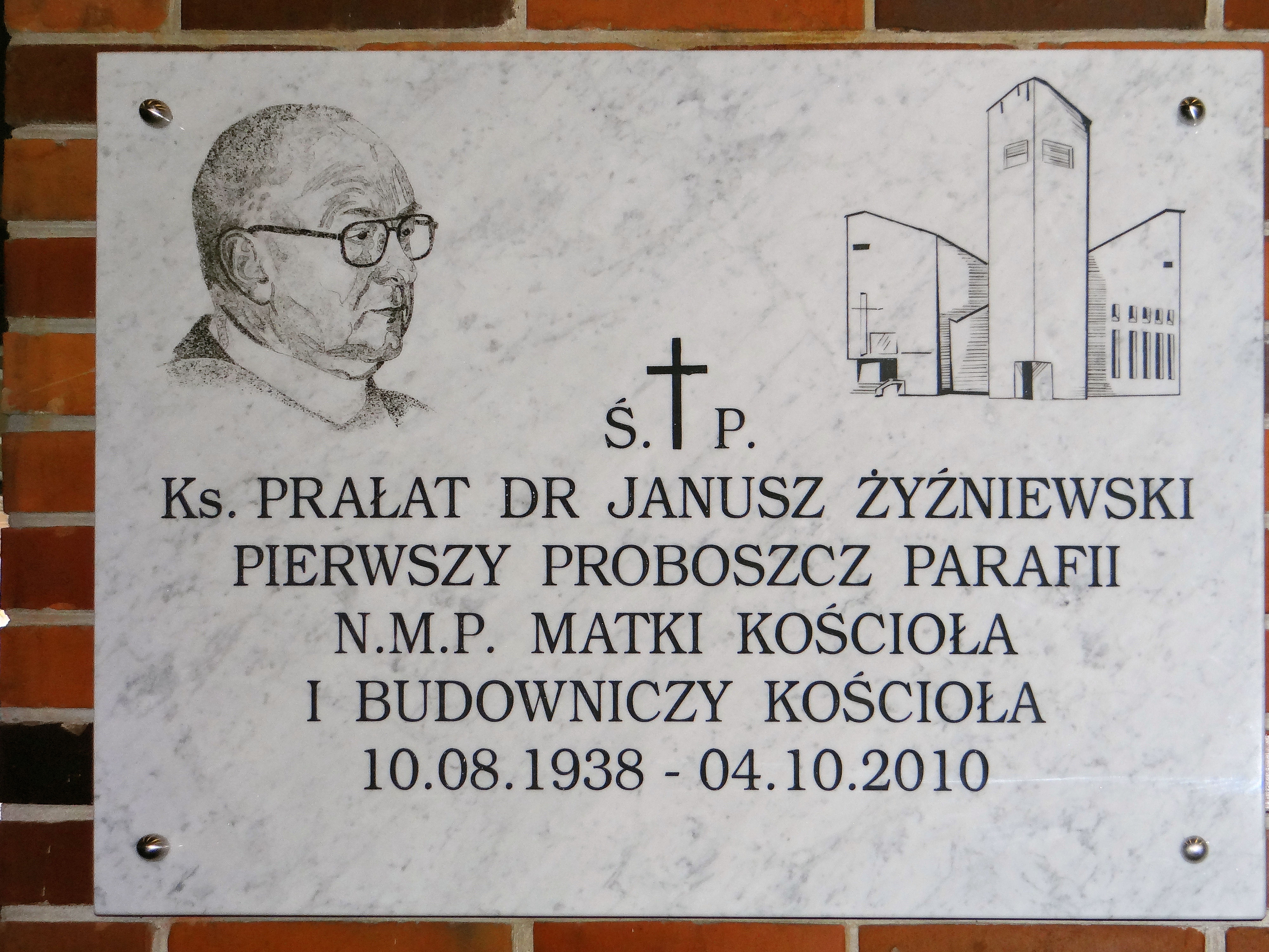 Fr. Janusz Żyźniewski commemorative plaque